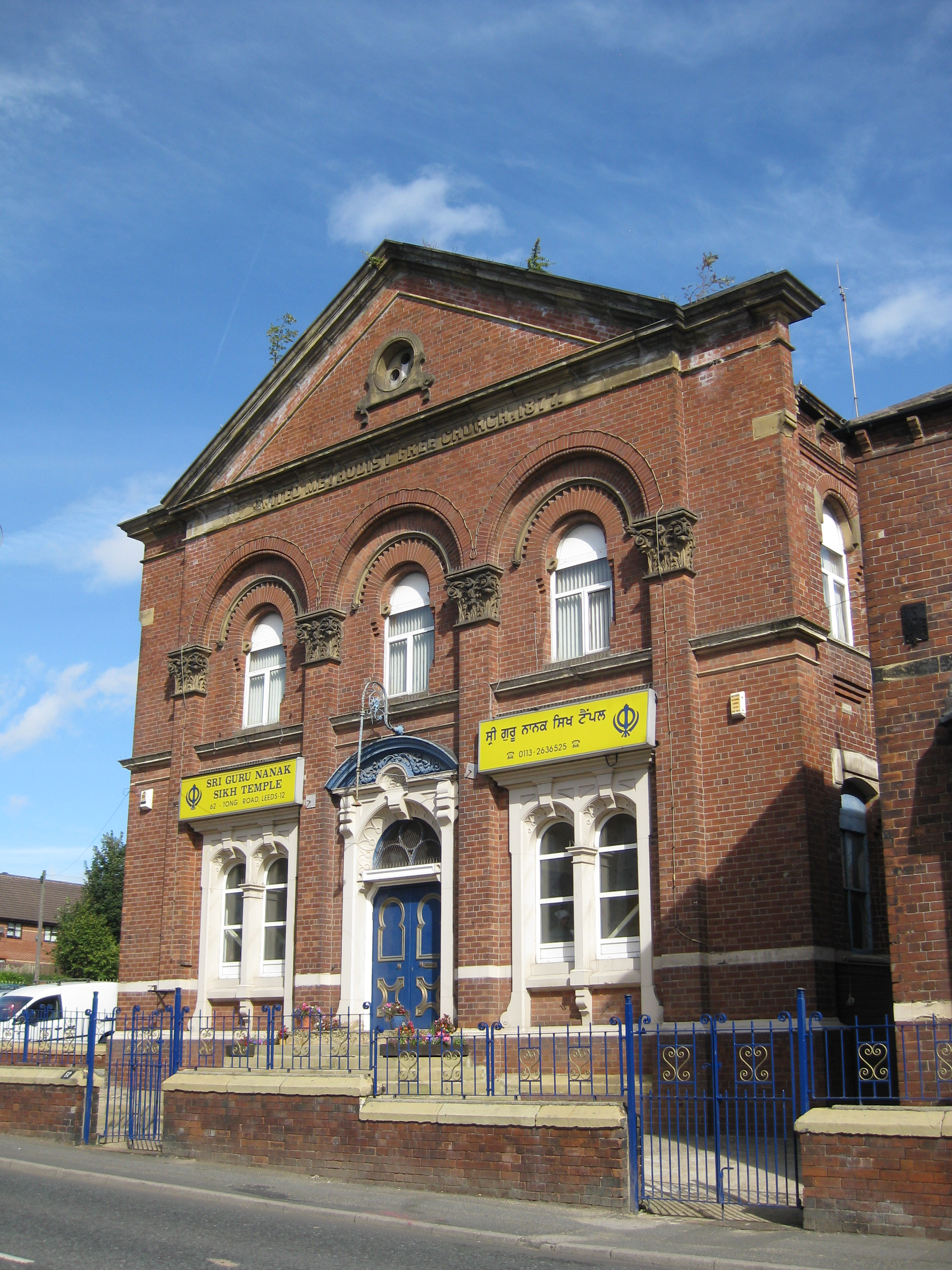 Sri Guru Nanak Sikh Temple, 62 Tong Road, LS12 1LZ. Brick building on the north side of the road. Variously referred to as being in Armley or Wortley. Within the Armley Ward. Former Methodist Church 1877